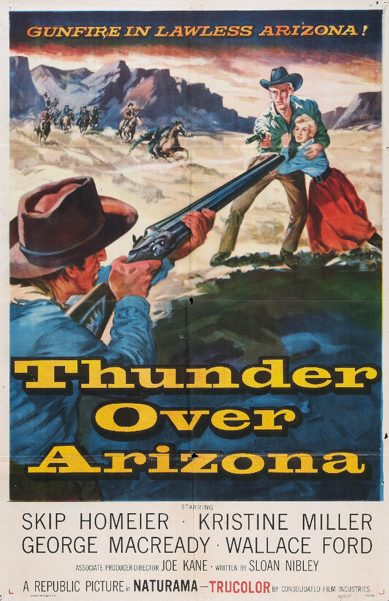 Poster for the 1956 film Thunder Over Arizona. There are no copyright marks. At bottom is Country of origin USA and 56/277 49286.